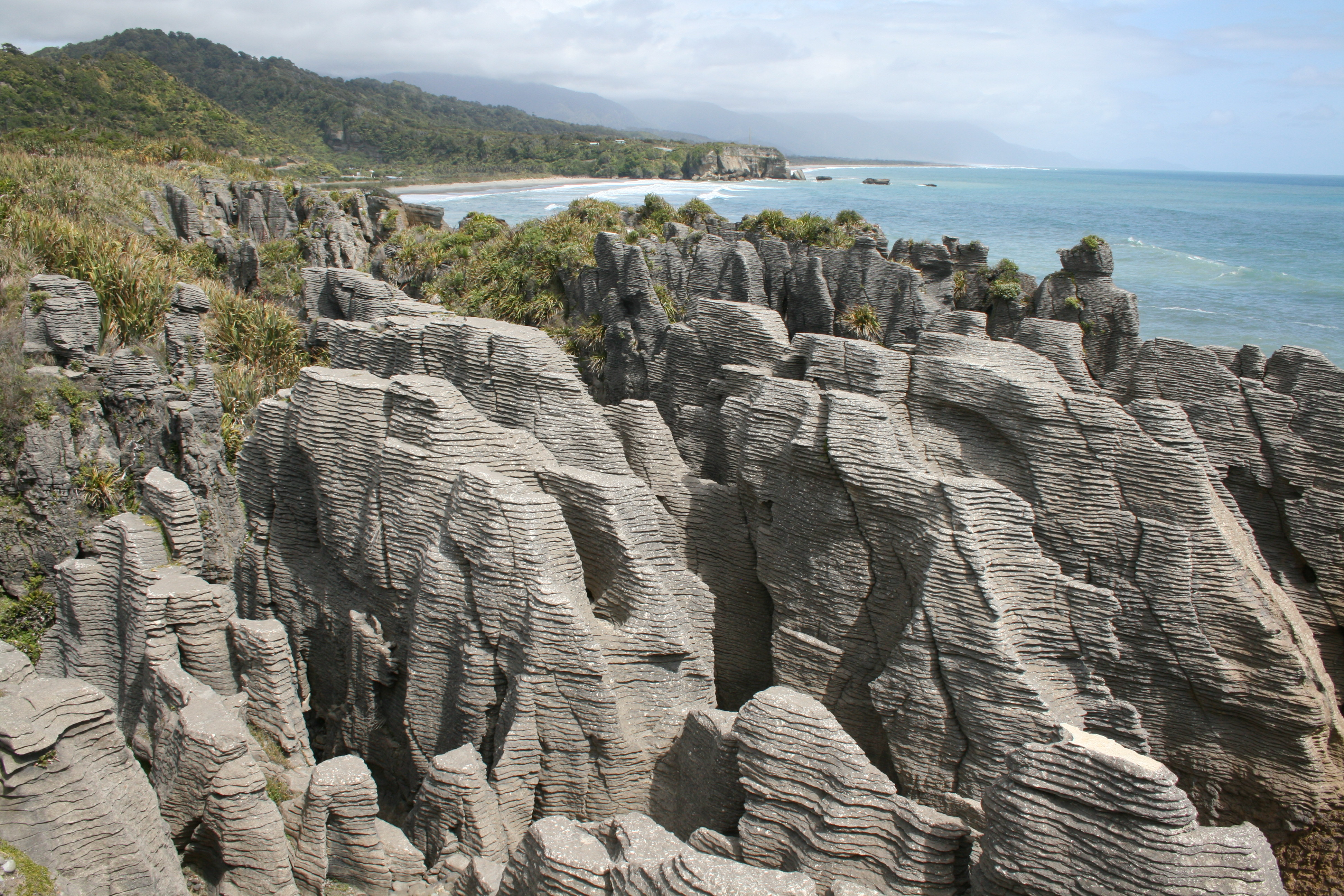 Pancake Rocks, New Zealand